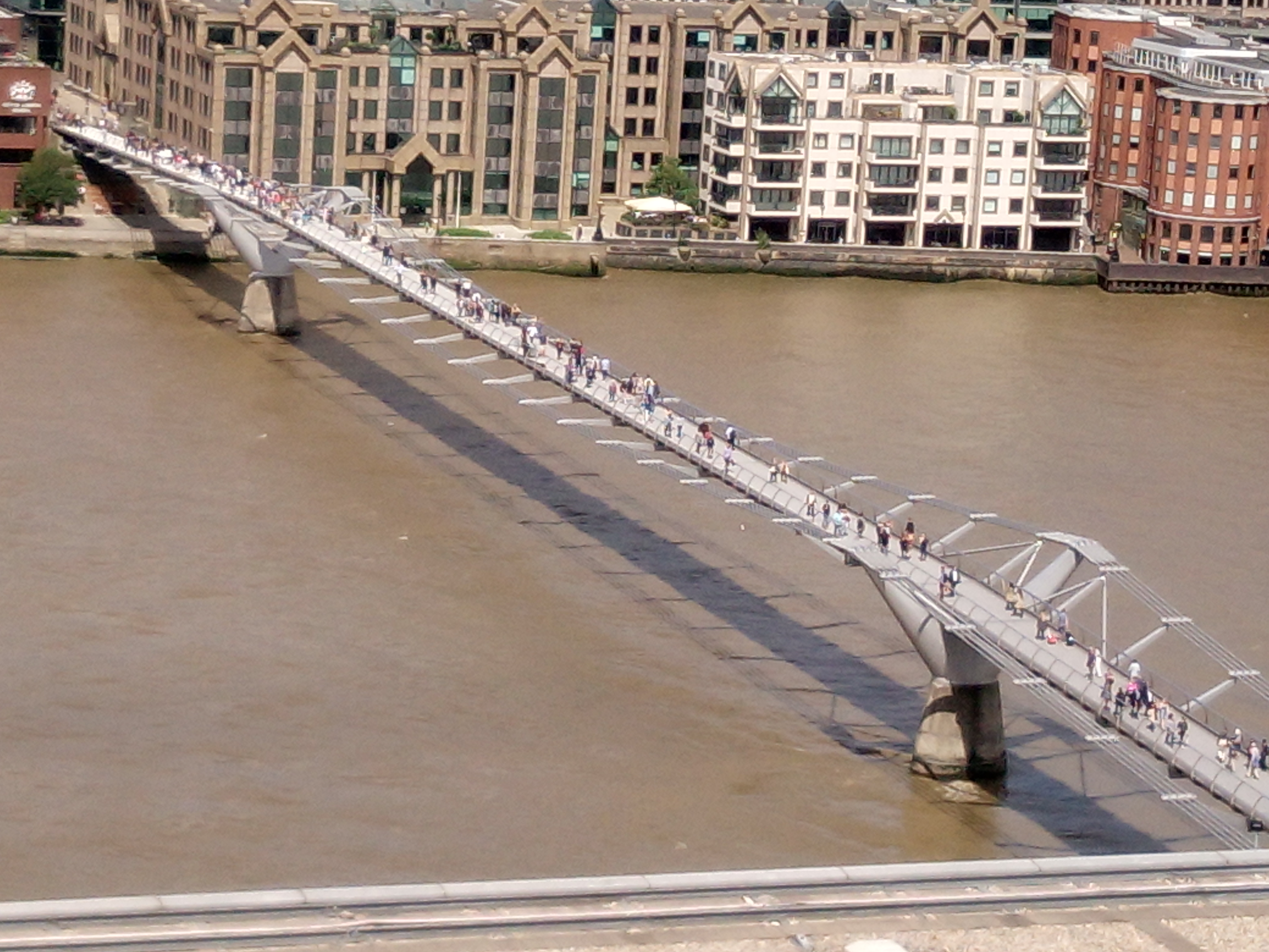 London Millennium Bridge over the Thames taken from the Tate Modern showing the cable suspension system.